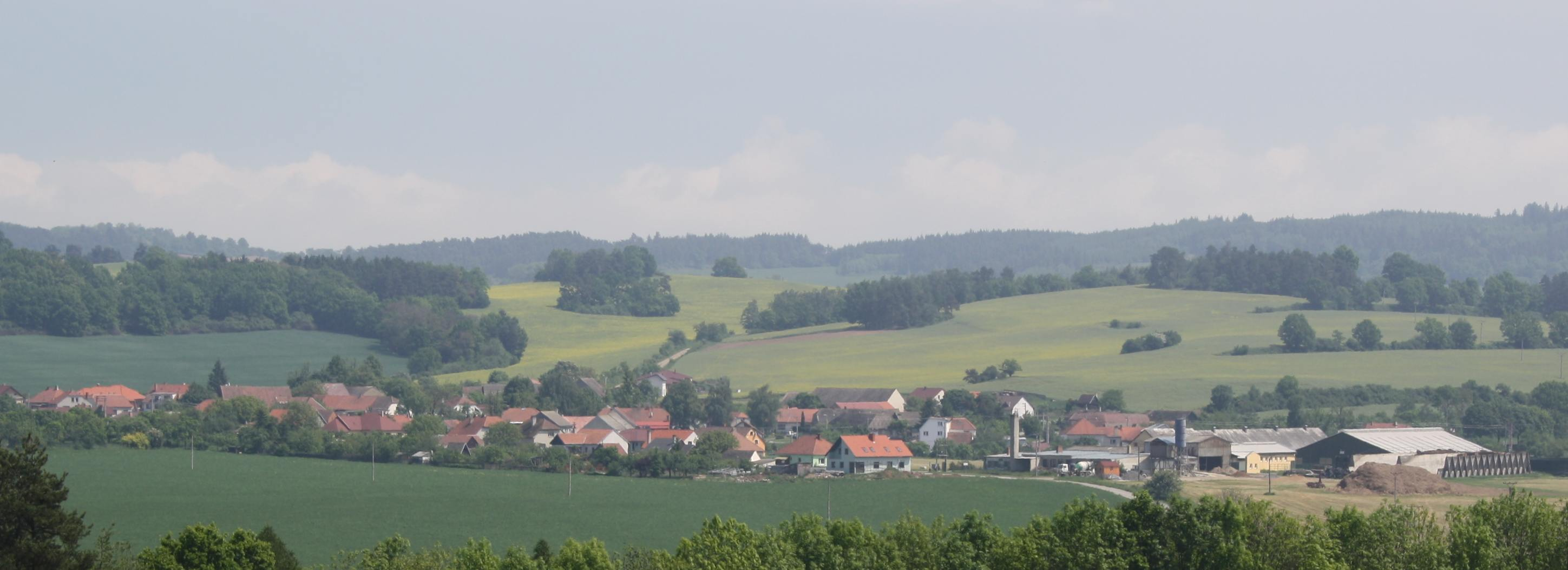 Nová Ves (Třebíč district) from road Okříšky-Petrovice.